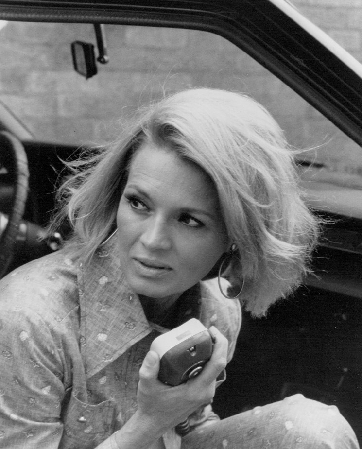 Photo of Angie Dickinson as Pepper Anderson from the premiere of the television series Police Woman.